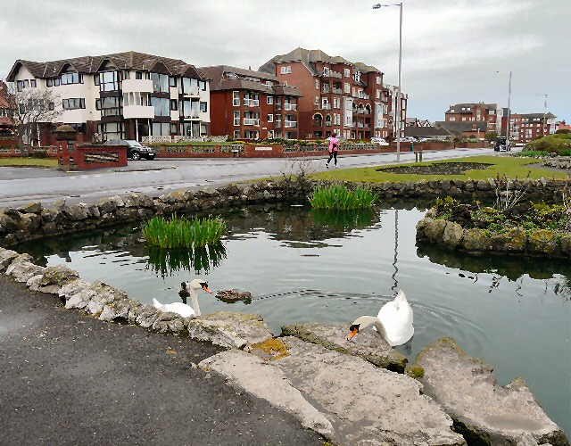 South Promenade. Looking down South Promenade, St Annes, towards Lytham. On the left are hotels and apartments. On the right are ornamental gardens with swans in pools.